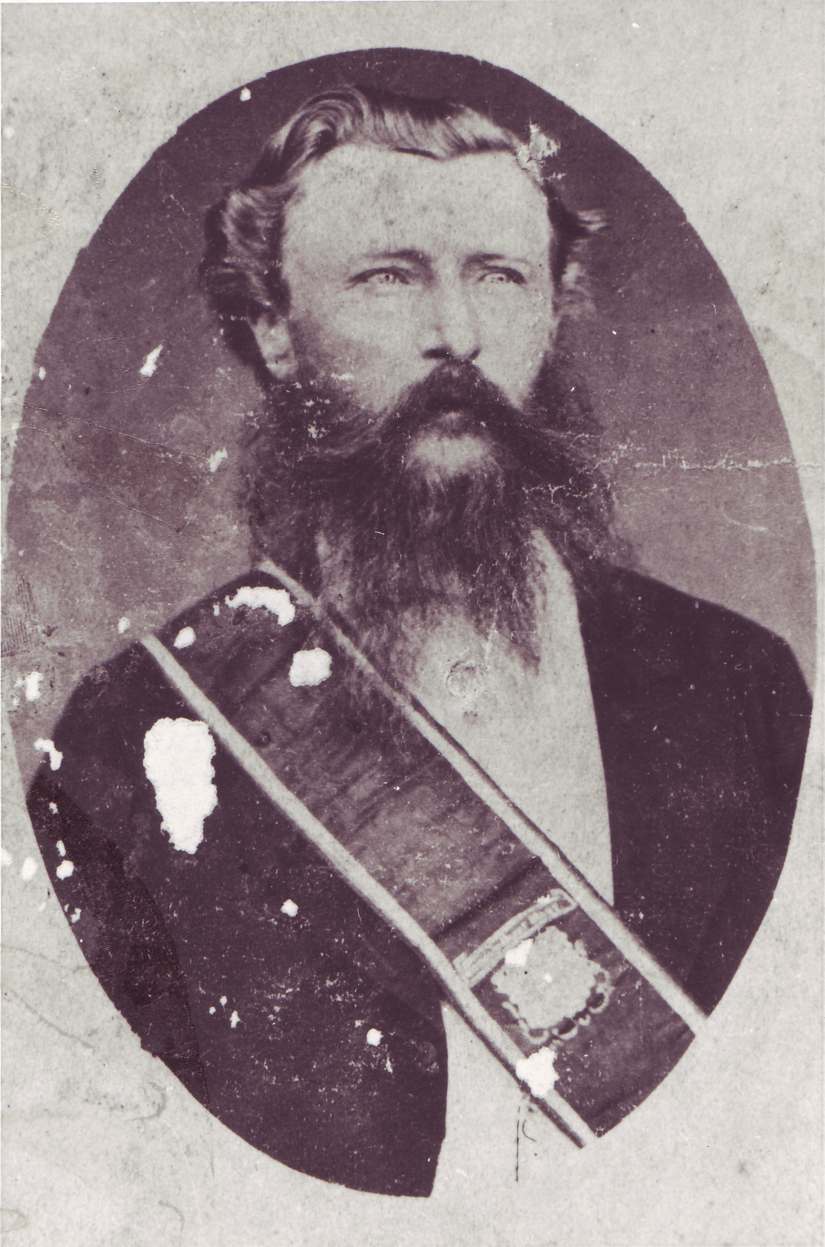 Second president of the South African Republic wearing the first pattern sash of office